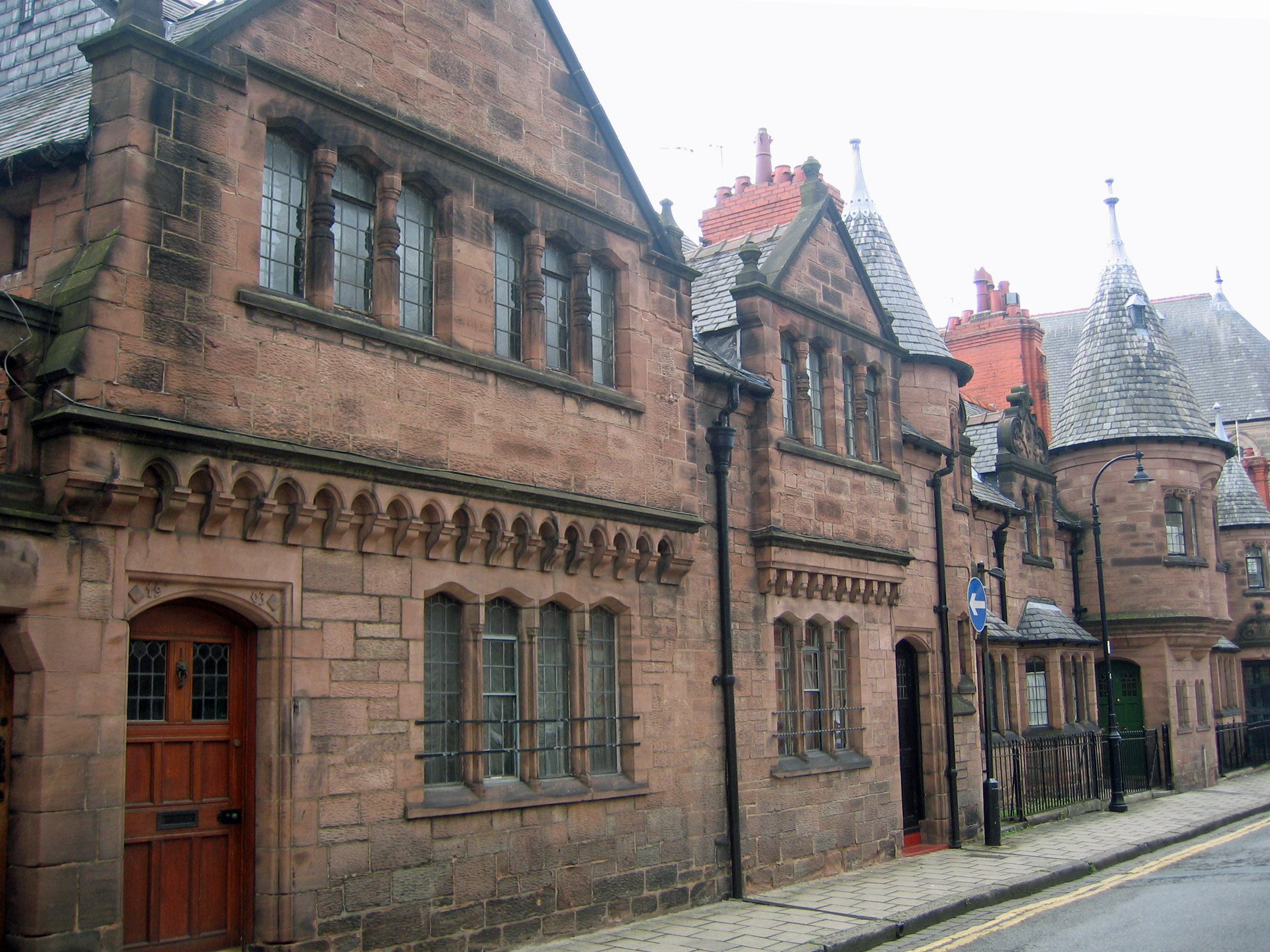 Photograph of Bath Street, Chester, England